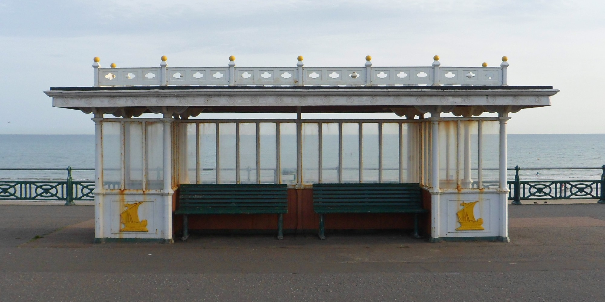 Shelter at Western Esplanade, Hove, City of Brighton and Hove, England. This Grade II-listed shelter is one of three on Western Esplanade; it is close to Hove Lagoon.